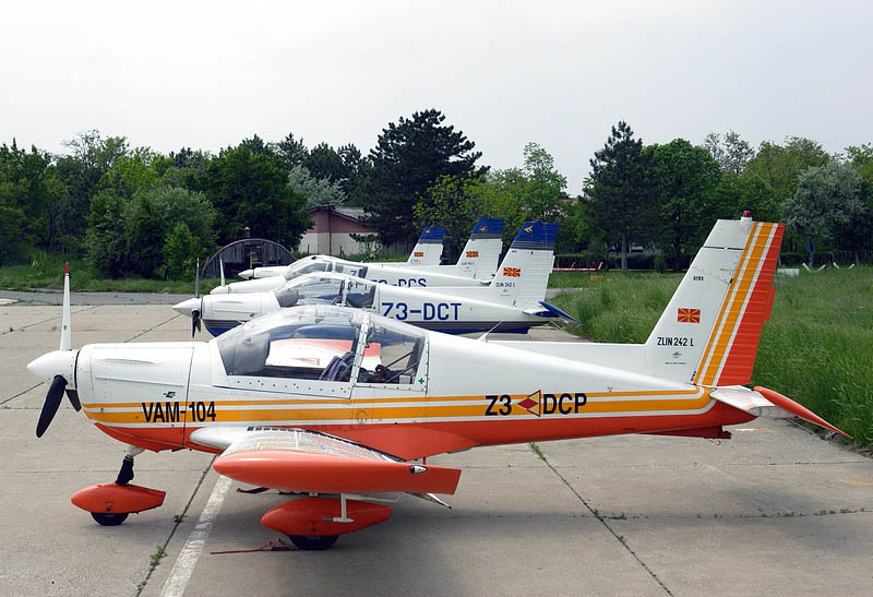 Macedonian Airforce Zlin z 242L acrobatic trainers at Petrovec Airbase in 2007